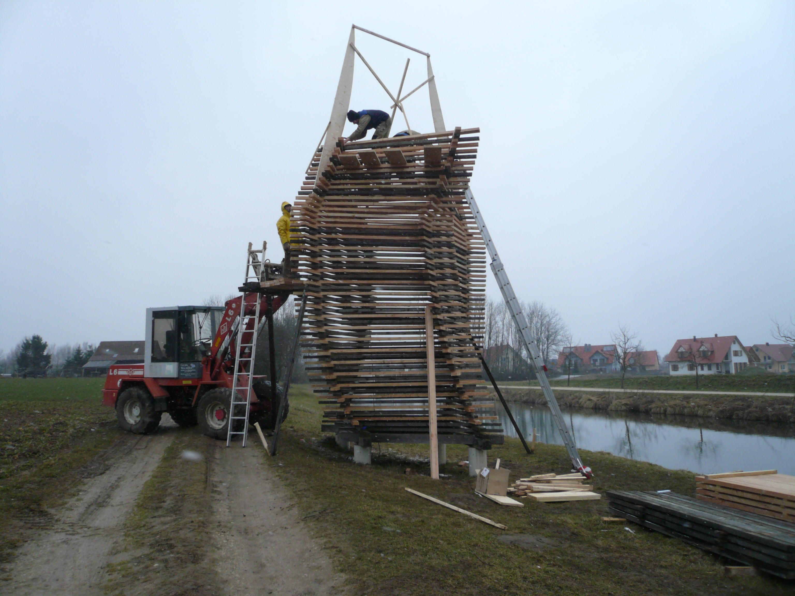 Sculpture "Stapelung 3" during reconstruction March 2009